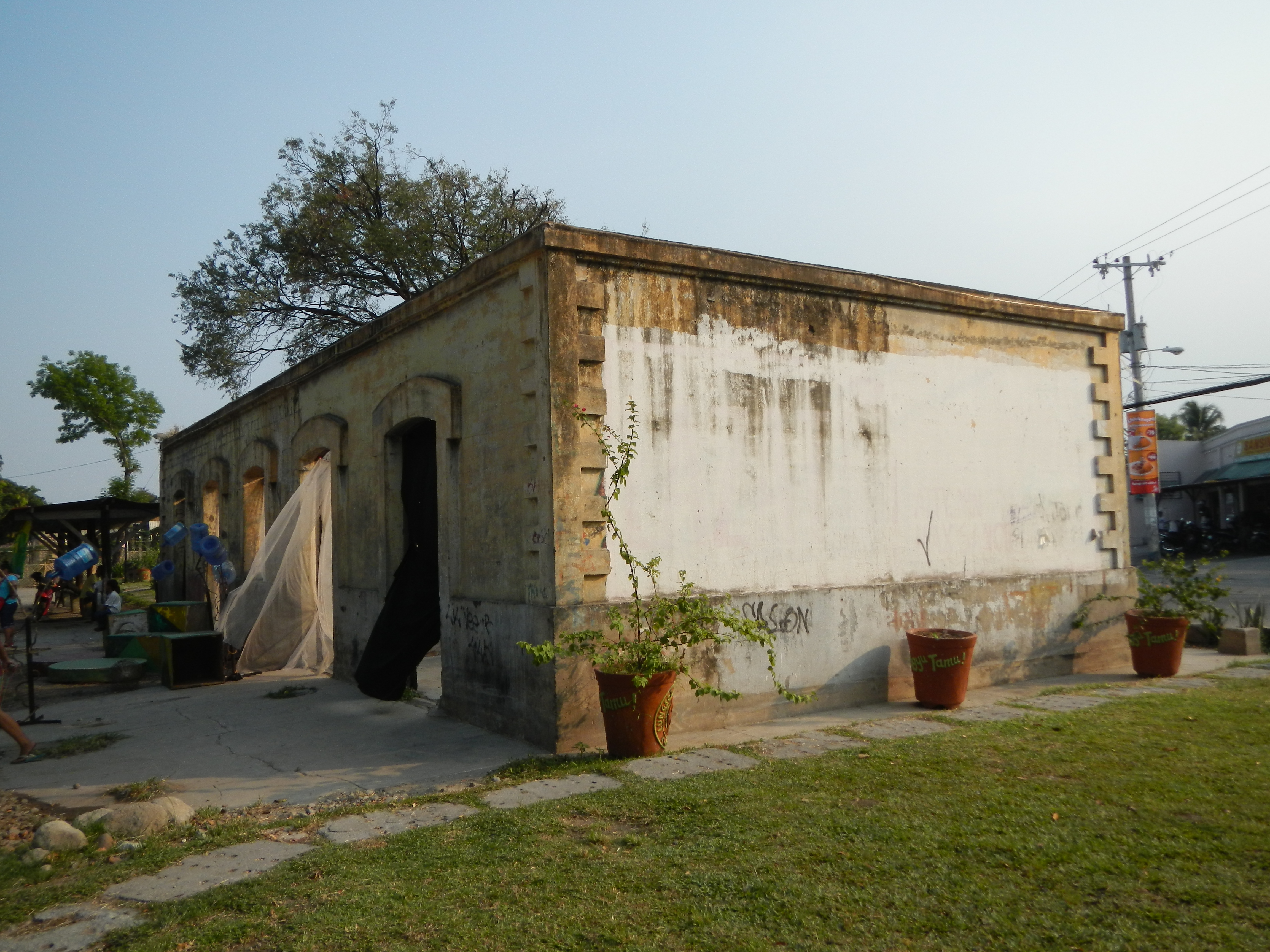 Barangays Lourdes North West, Virgen delos Remedios, Claro M. Recto, Agapito del Rosario andLourdes Sur, of Angeles City, Pampanga Province, the Philippines (Note: these Barangays are too close in their boundaries, hence their integration as 1 category).